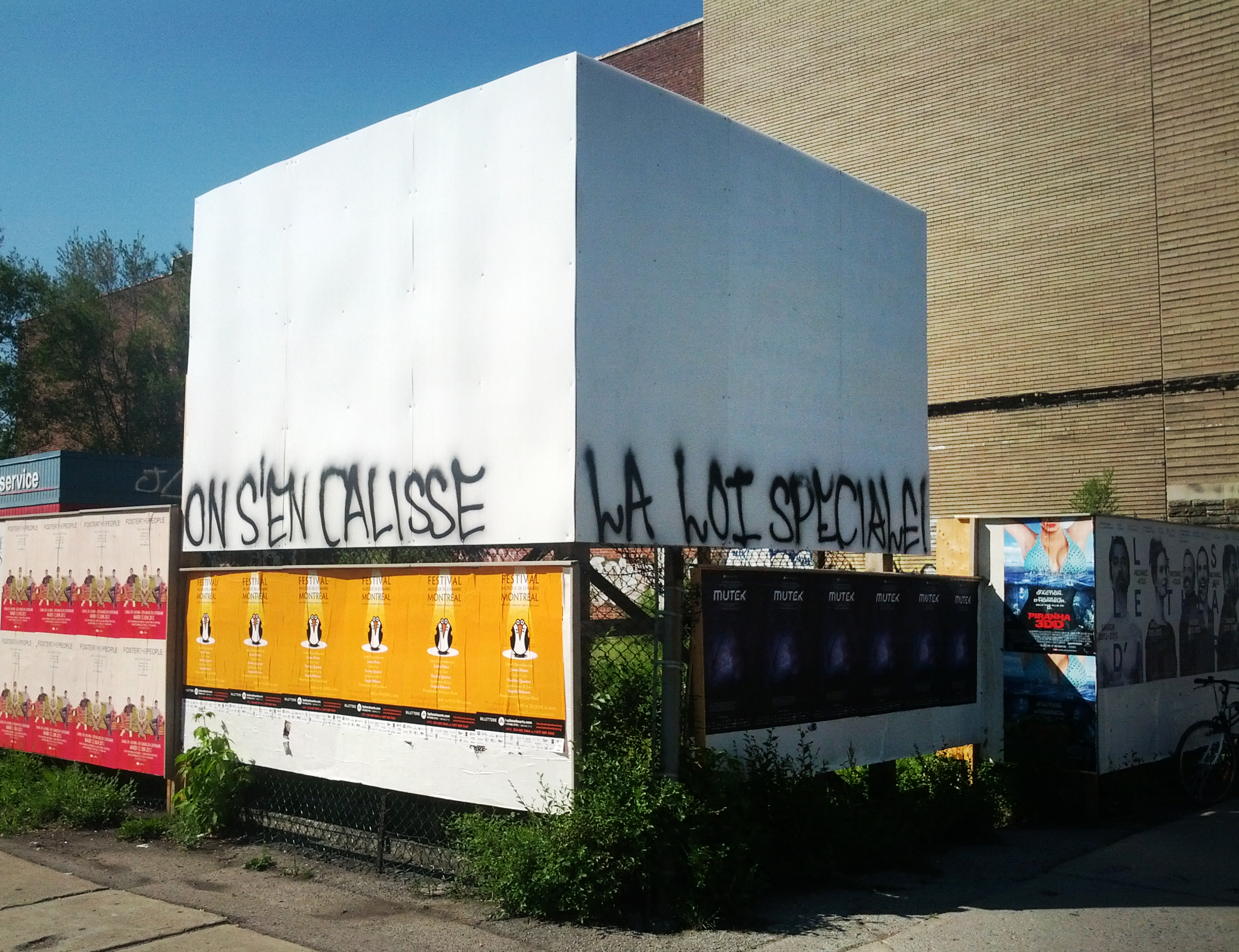 Anti Bill 78 graffiti in Montreal, Quebec, on the corner of Papineau and Ste.Catherine East Streets. (Translation: Special law, one doesn't give a fuck)